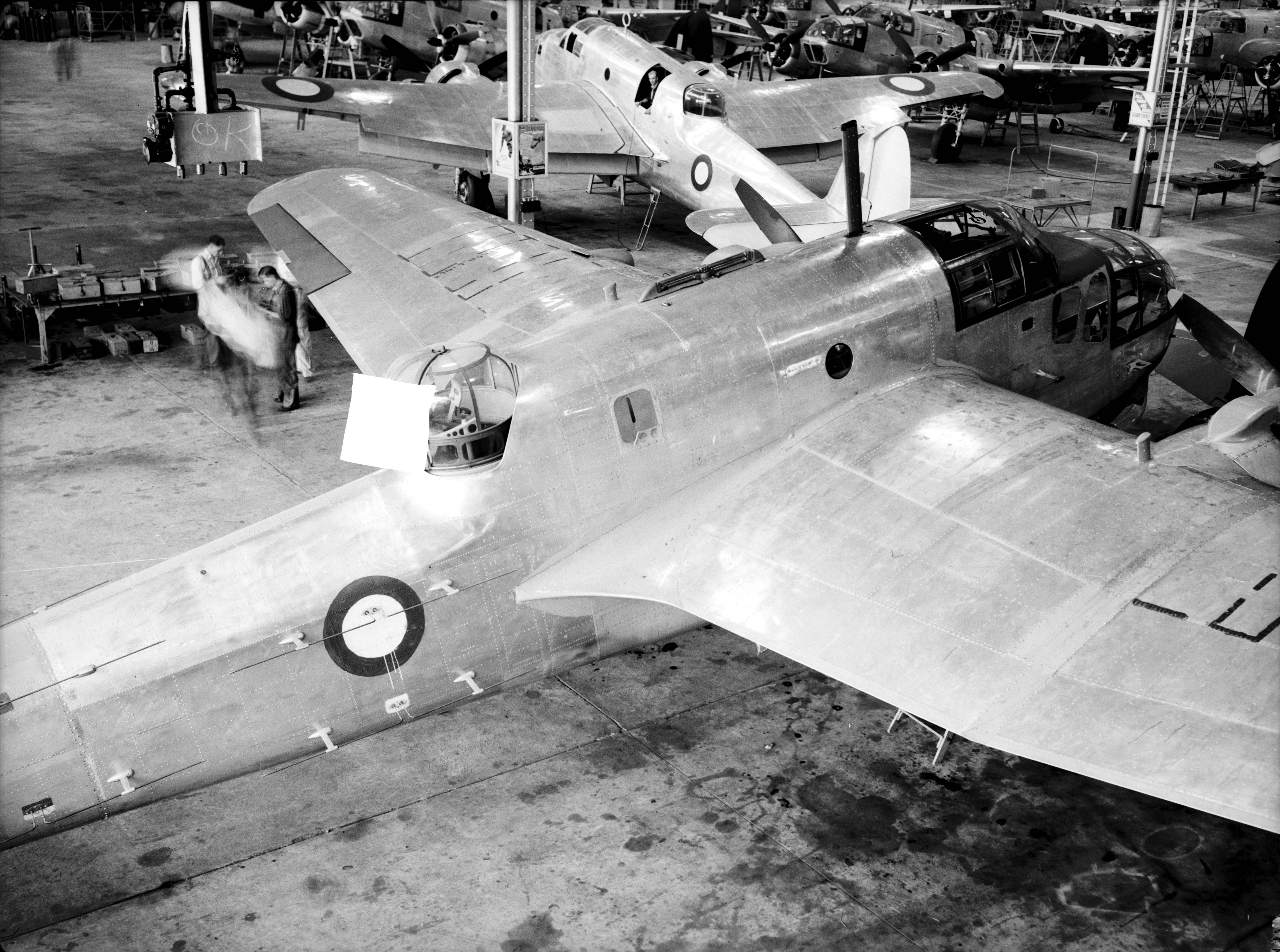 Production of RAAF Bristol Beaufort Mk.VII or VIII (note ASV Radar array on rear fuselage, and small blue/white Pacific Theatre roundels) torpedo bombers at the Department of Aircraft Production (DAP) plant in Fisherman's Bend, Melbourne (Australia), circa 1943/1944.